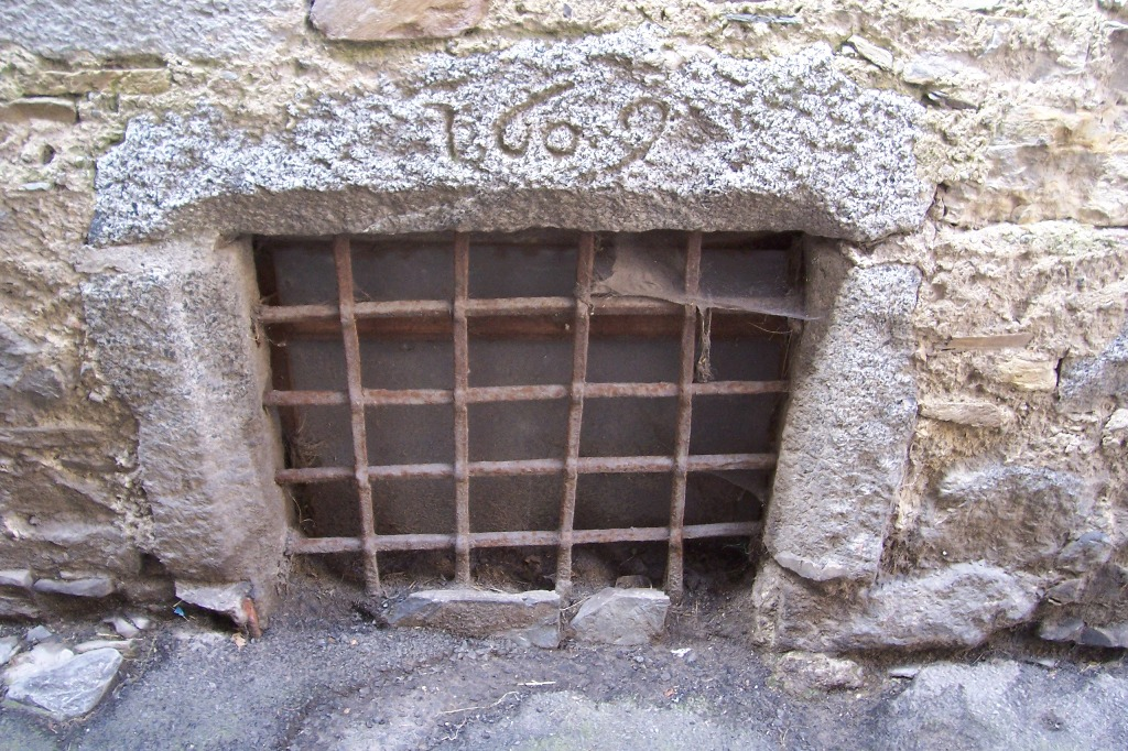 Window, Cimbergo, Val Camonica